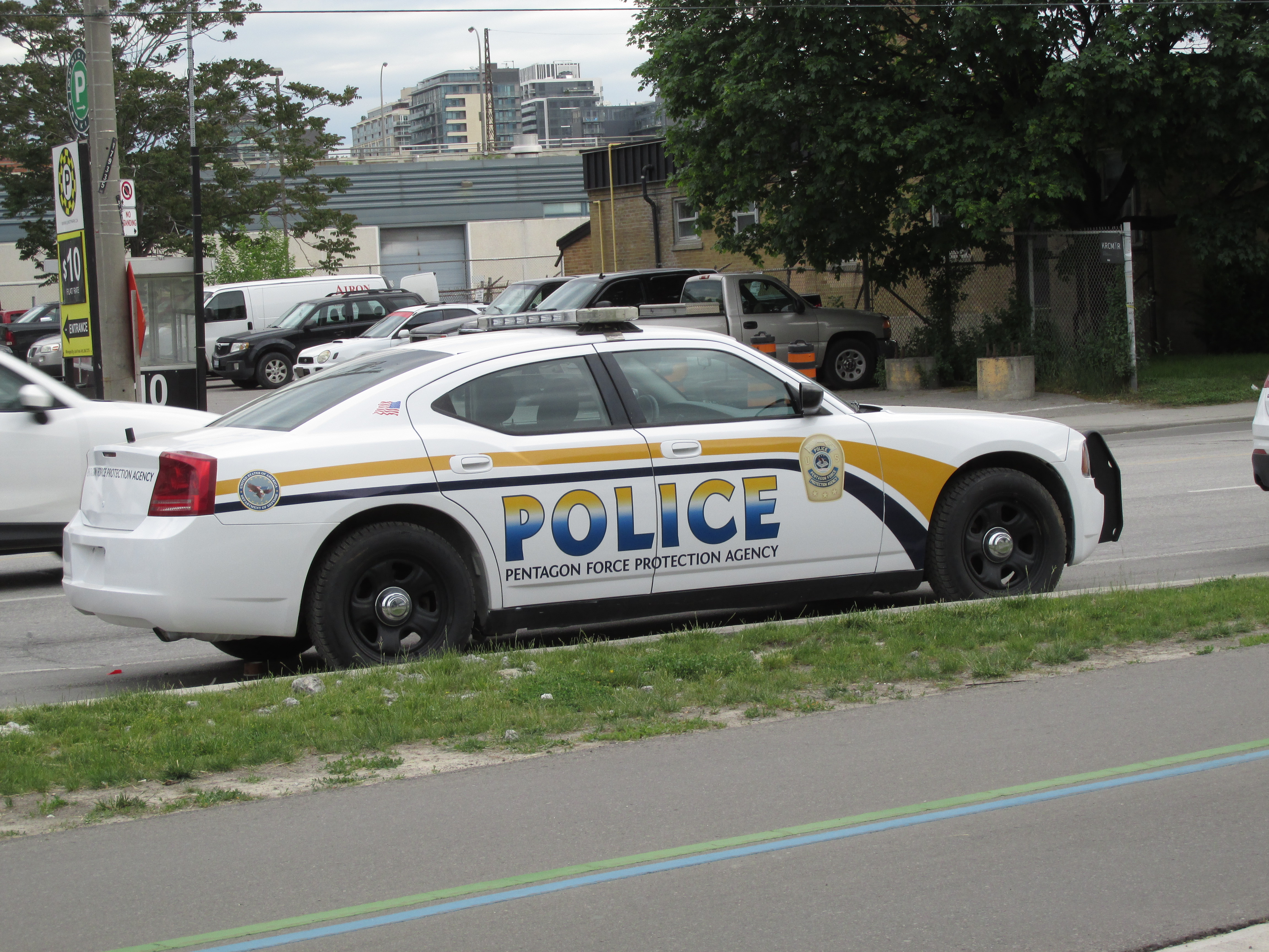 A prop vehicle made out to look as belonging to the Pentagon Force Protection Agency.